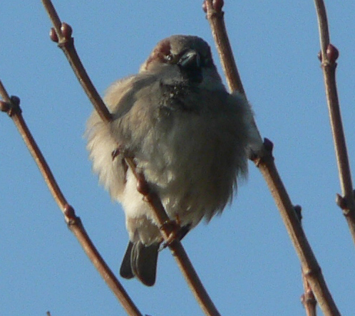 House Sparrow with feathers erected against winter cold